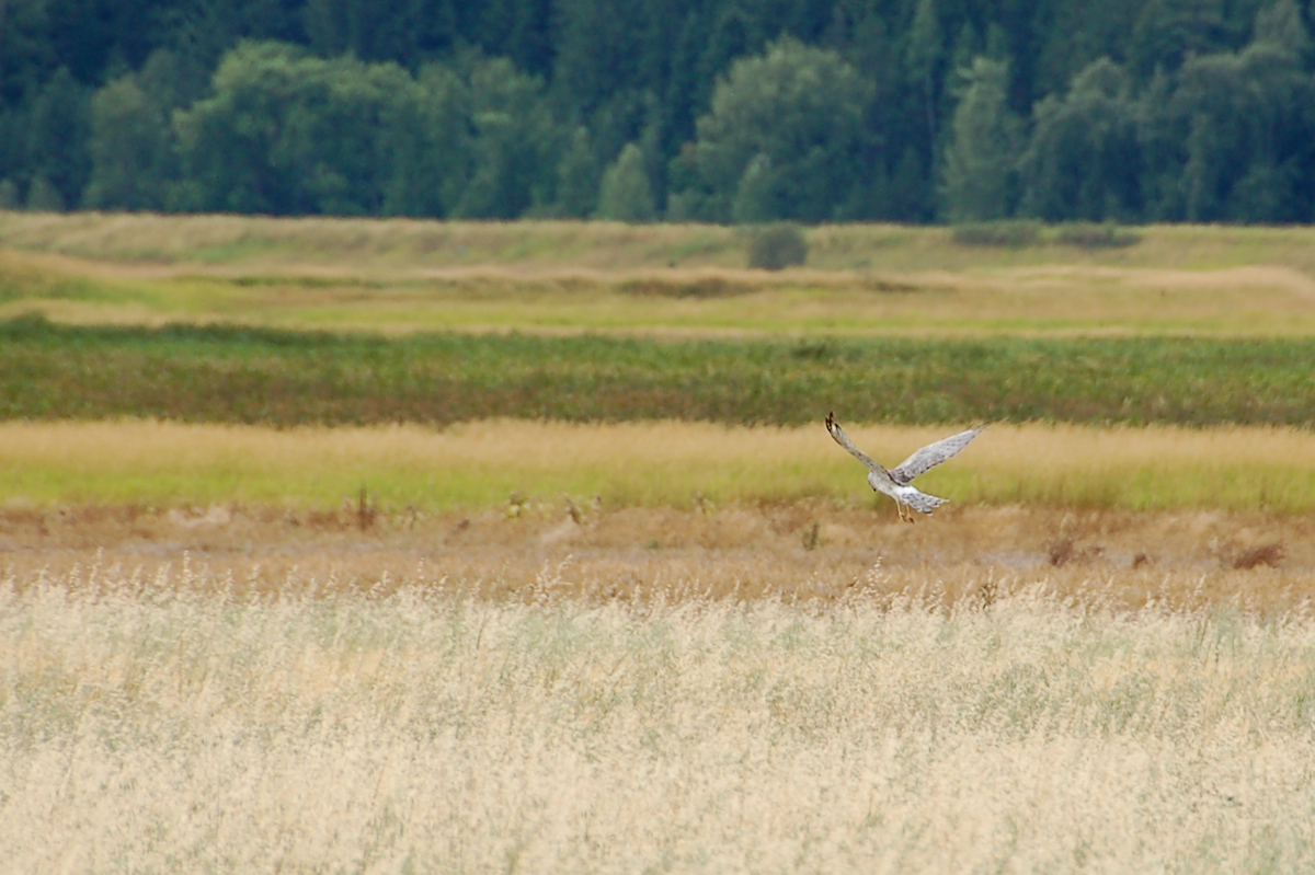 Male Northern Harrier (Circus hudsonius) at Kootenai NWR